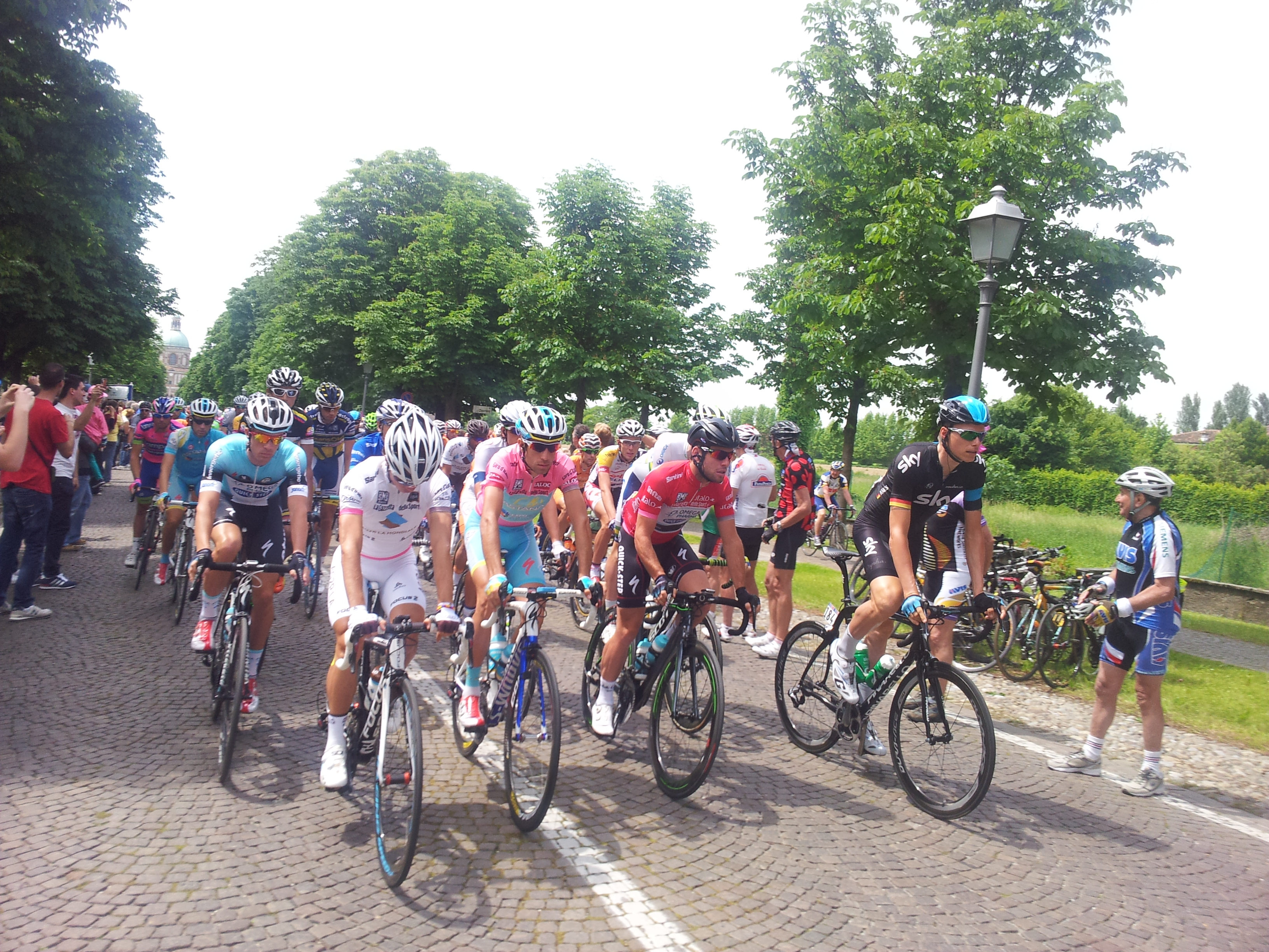 Start of stage 17 in Caravaggio